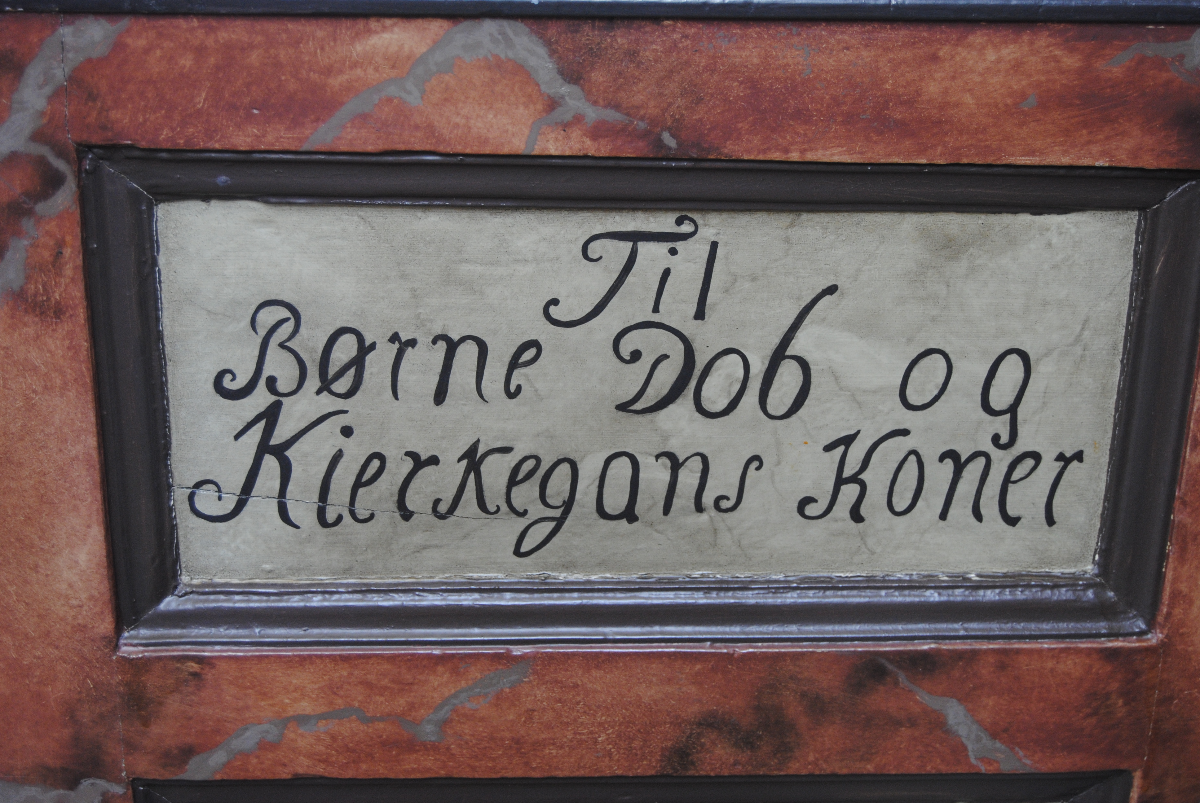 Inscription om church bench used for churching of women and families of the baptismal candidates in Mariager church, Denmark. Inscription says: For baptism of children and churching of women